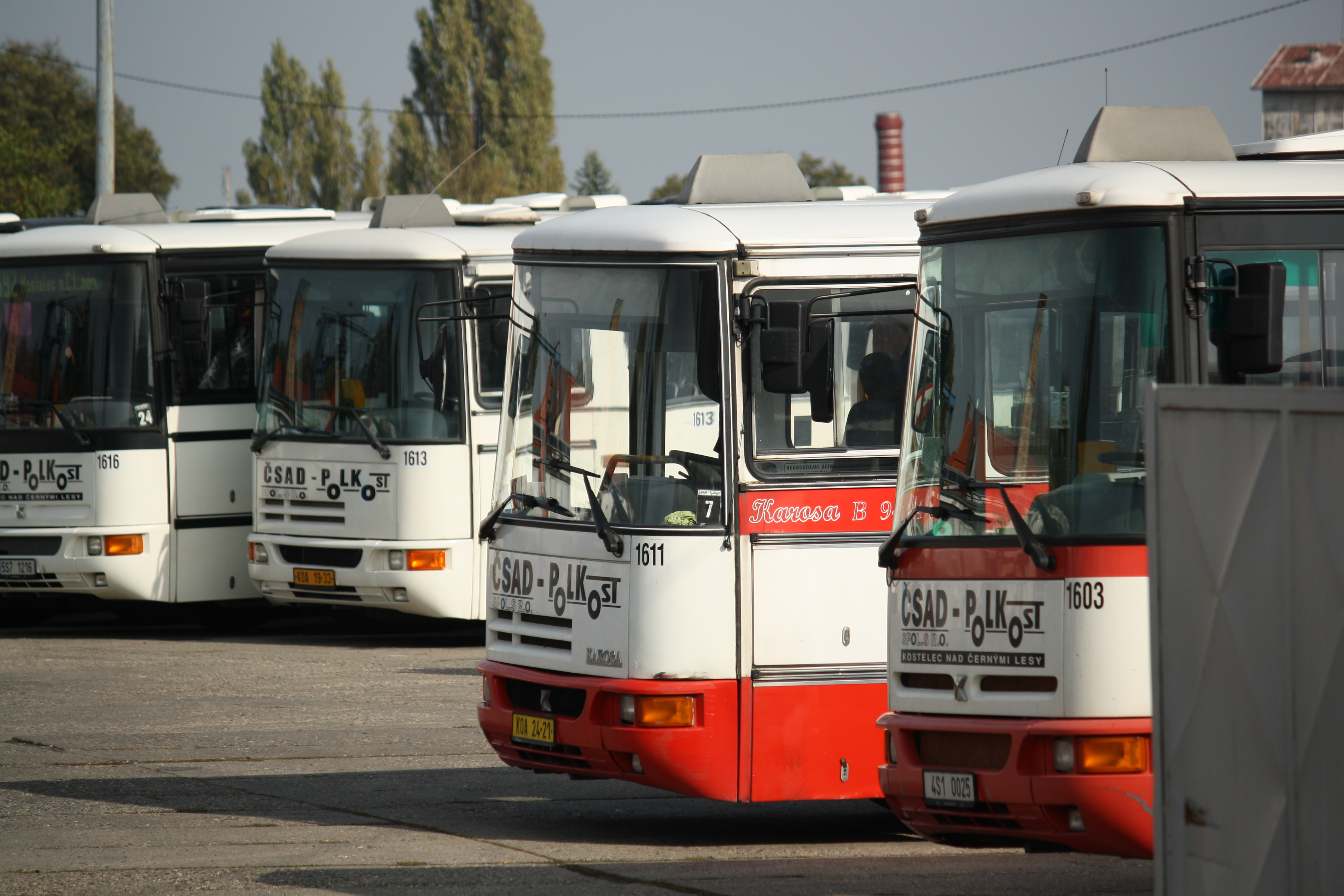 Various Karosa buses of ČSAD Polkost on public display during 10th anniversary of Prague Integrated Transport in the area of Kostelec nad Černými Lesy, where is the main garage of ČSAD Polkost located. Central Bohemian Region, CZ This photograph was taken with a DSLR from WMCZ's Camera grant.